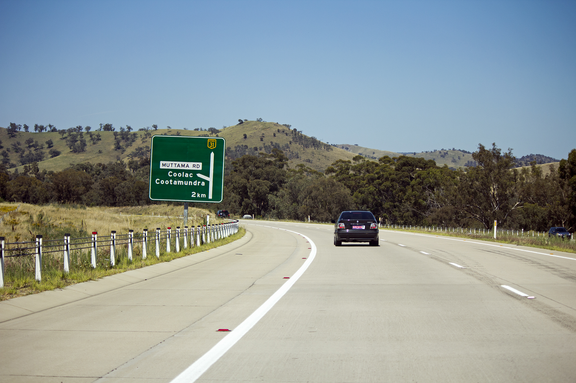 2 km from the Coolac - Cootamundra exit on the Hume Highway (Coolac Bypass).